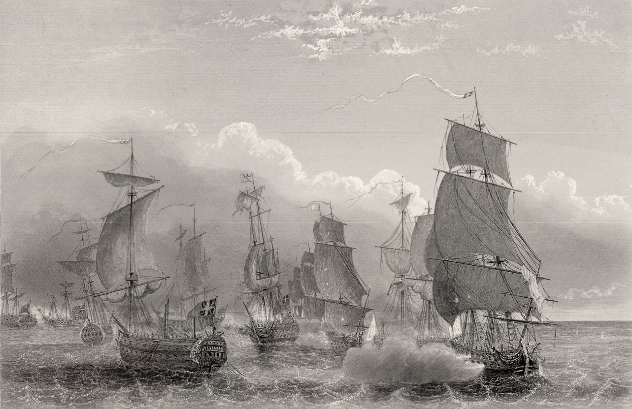 Naval battle between a French division and English squadron, 18 Dec 1779; Partier and La Rolte off Fort Royal; engraving, steel